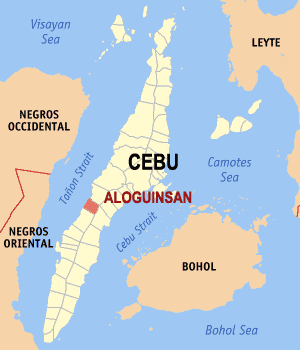 Map of Cebu showing the location of Aloguinsan